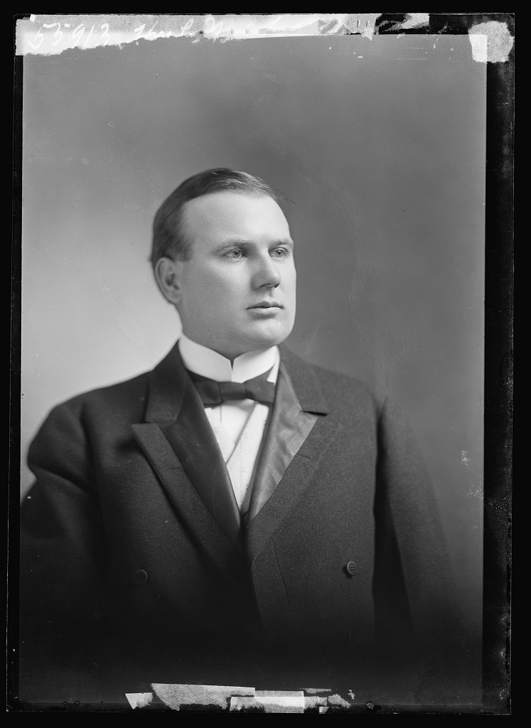 Charles McGavin photographed by C. M. Bell Studios